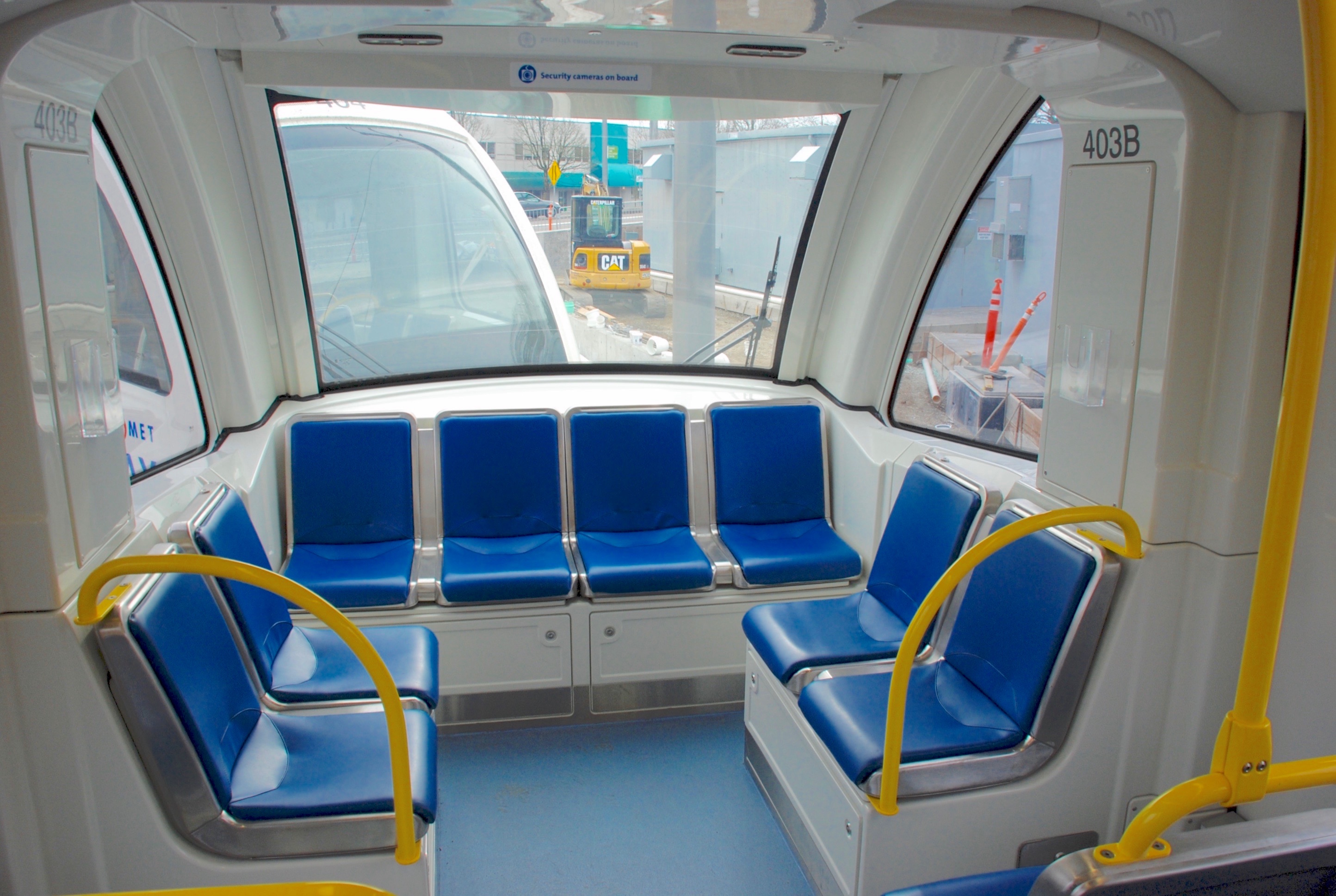 Interior of rear section of a single-ended Siemens S70 LRV, also called the "parlor" area or parlor cab. The specific car in the photo (No. 403, coupled to 404 here) is a 2008-built "Type 4". The S70 model has been purchased by several light rail systems, but TriMet's MAX system is (as of 2015) the only one to have purchased a single-ended model. The double-ended models (ones with operating cabs at both ends) have no parlor section.